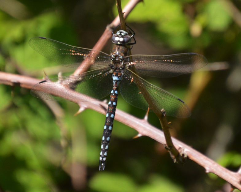 Rhionaeschna californica seen at Soos Creek Park, WA